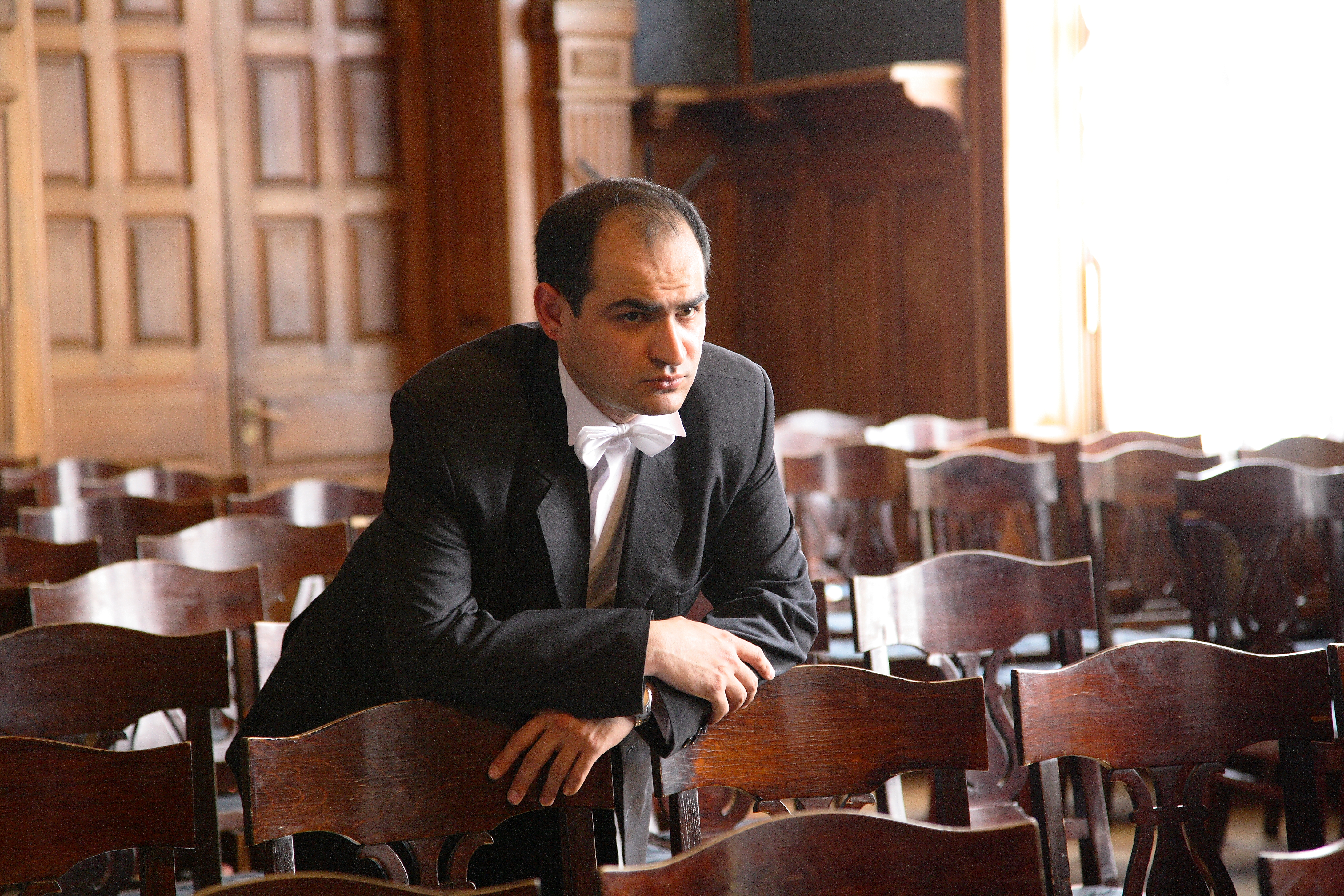 Mehdi Hosseini